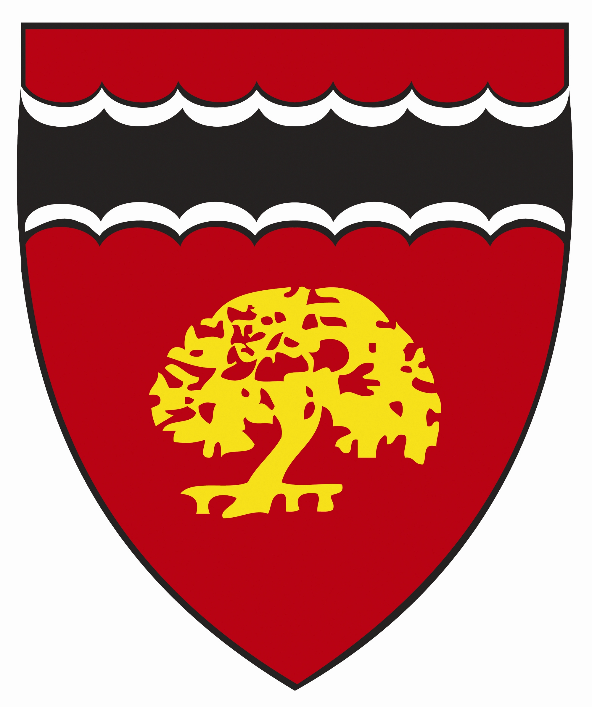 Currier House (Harvard College) shield